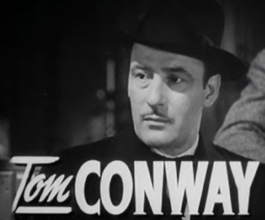 Cropped screenshot of Tom Conway from the trailer for the film Grand Central Murder.